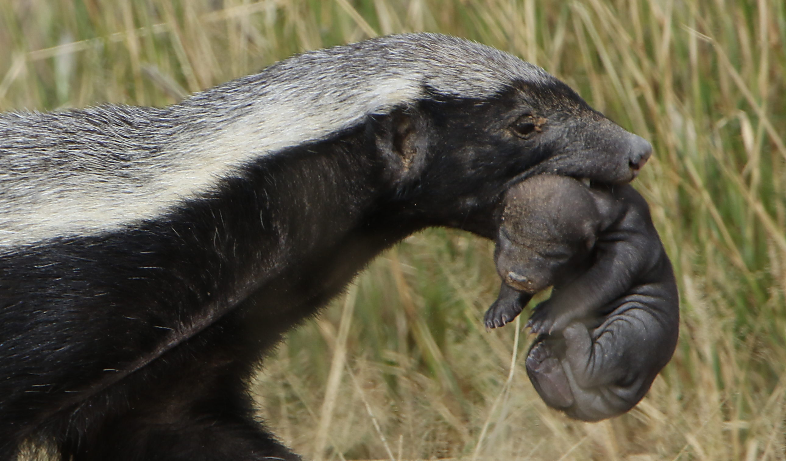 Honey badger, Mellivora capensis, carrying young pup in her mouth at Kgalagadi Transfrontier Park, Northern Cape, South Africa